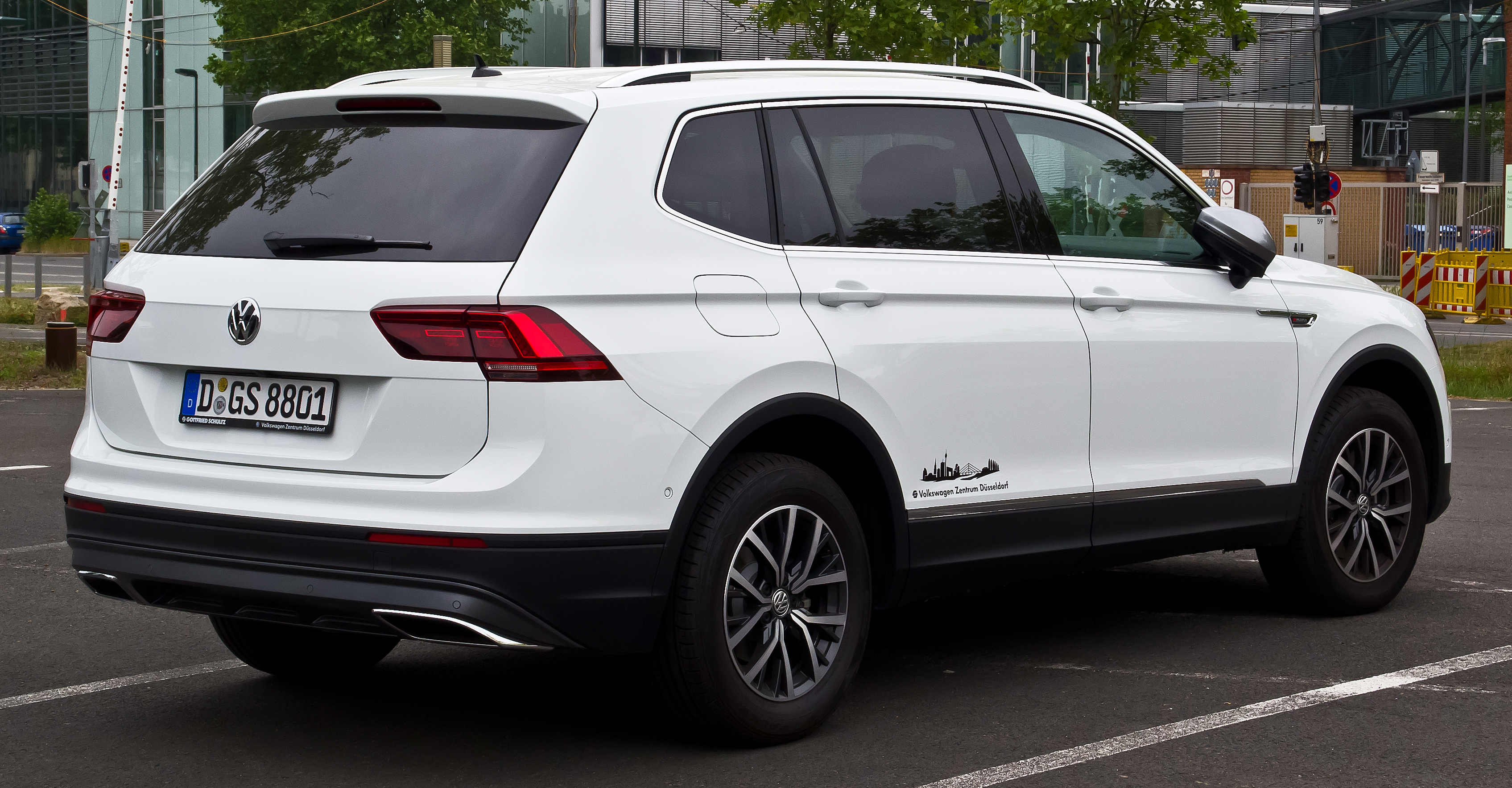 VW Tiguan Allspace Comfortline 4MOTION (II)